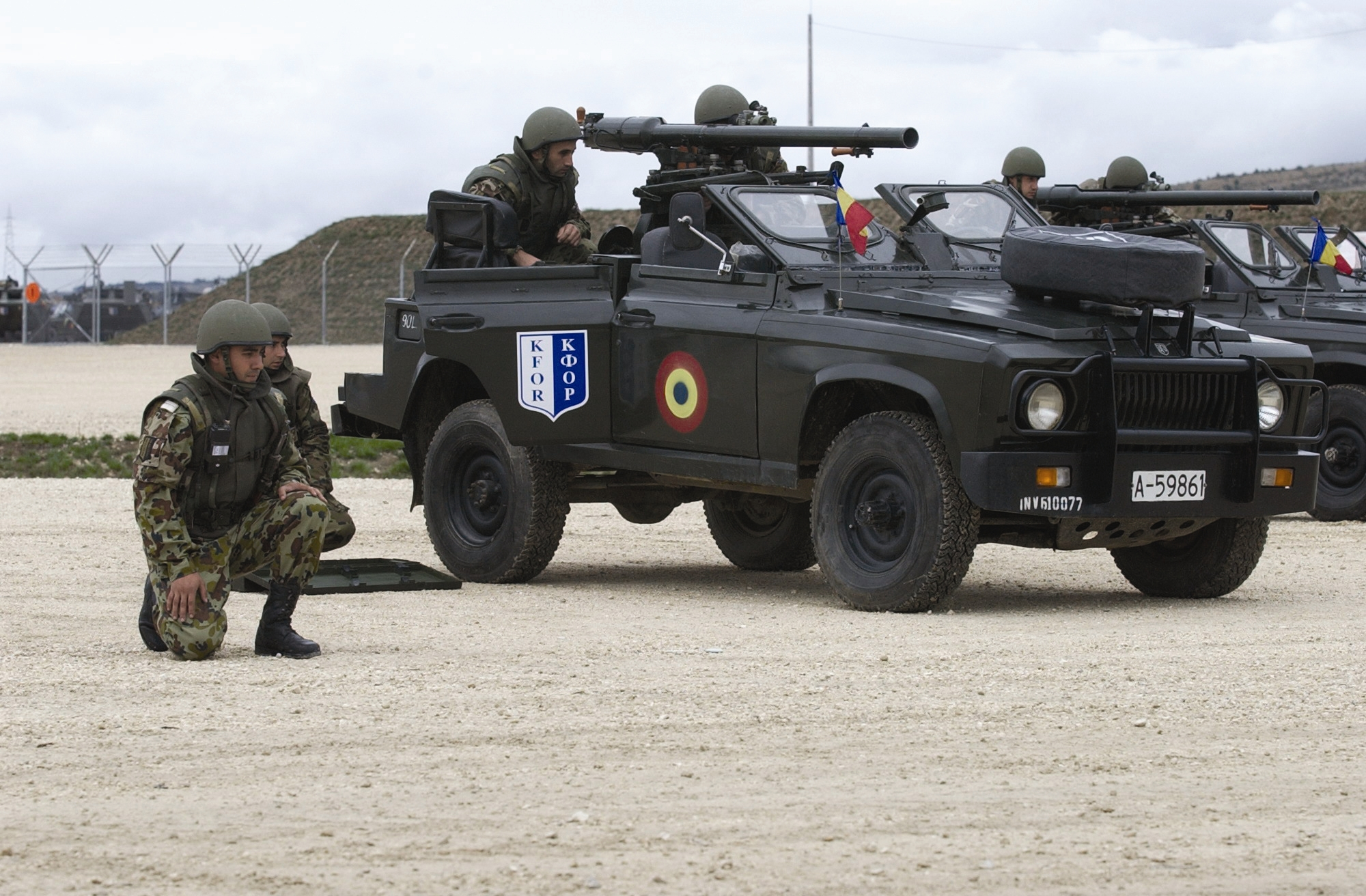 Romanian soldiers within KFOR mission. The vehicle is a ARO 241 and it has a AG-9 (licensed built SPG-9) mounted on it.